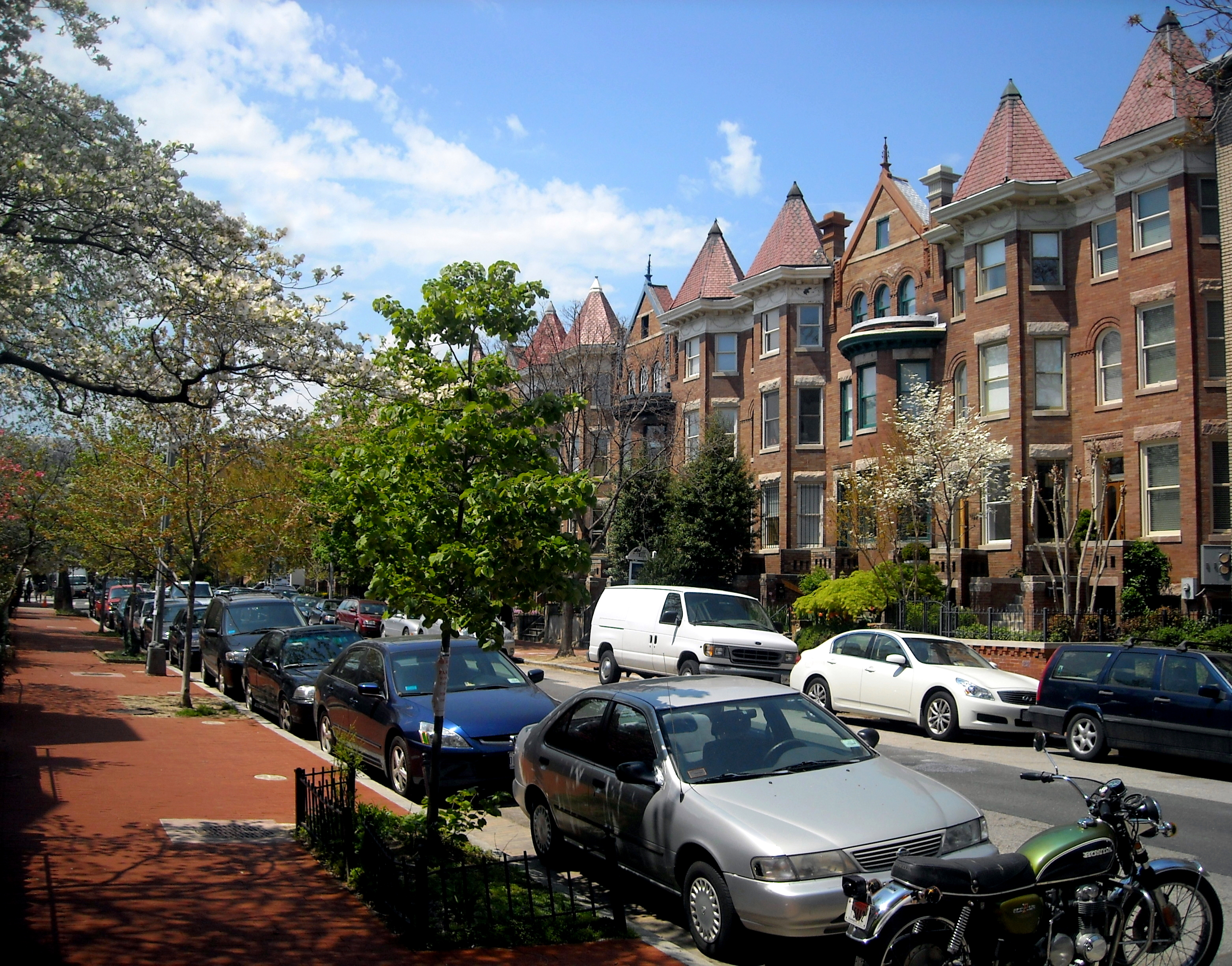 Row houses located at 1757–1771 T Street, N.W. (right to left), in the Dupont Circle neighborhood of Washington, D.C. Built in 1905 by developer John M. Henderson, the Queen Anne and Romanesque Revival-style homes were designed by architect William B. Allard. They are designated as contributing properties to the Strivers' Section Historic District, listed on the National Register of Historic Places in 1985.